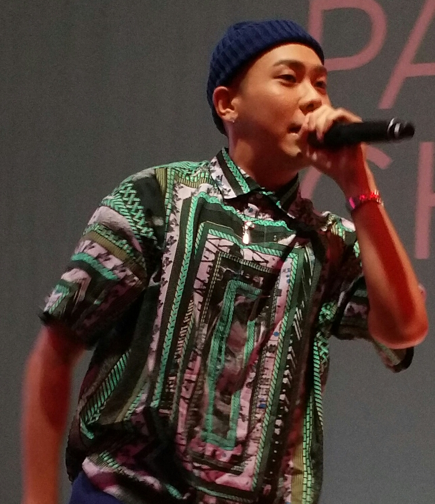 Loco performing at Paula's Choice 10th Anniversary Celebration event, Namsan J-Gran House, Jangchungdan-ro, Jung-gu, Seoul.